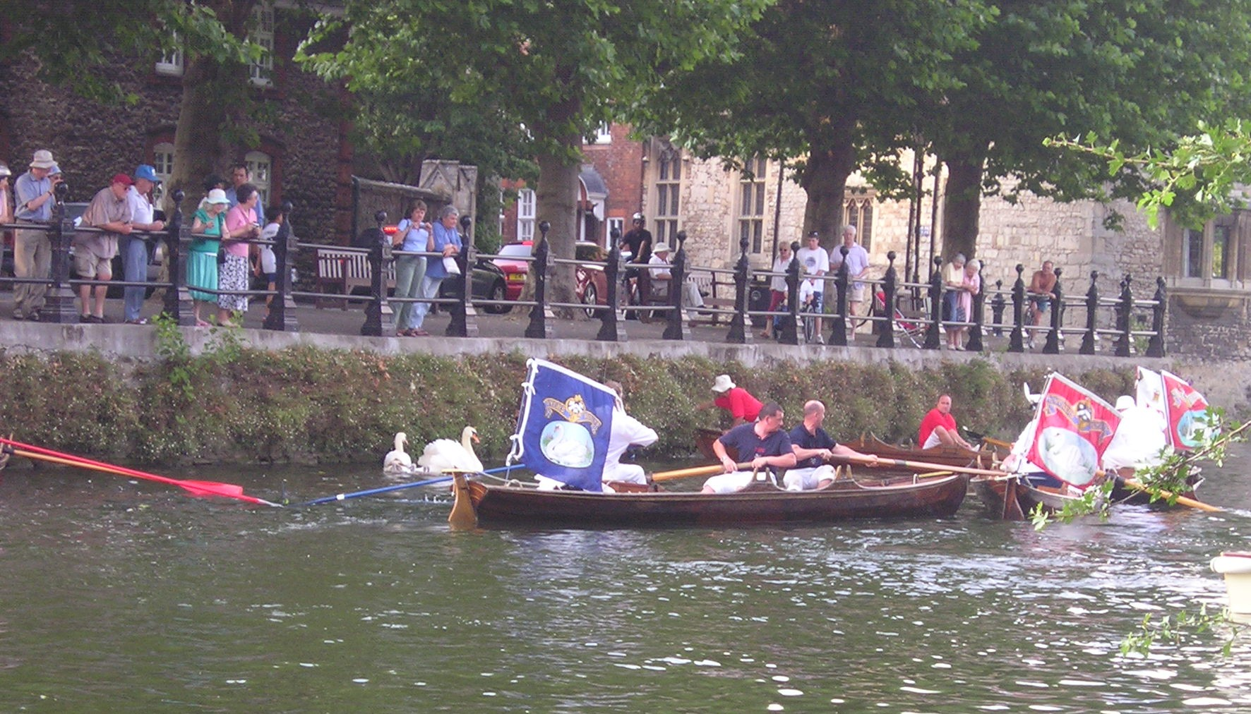 The Queen's Swan Uppers (white flag, far right) and swan uppers from the Vintners' Company (red flag) and Dyers' Company conducting Swan Upping (an annual census of the swan population) on the Thames in Abingdon. The skiffs surround the swans so that the swan uppers can catch the birds. They are then weighed, measured, tagged and released.